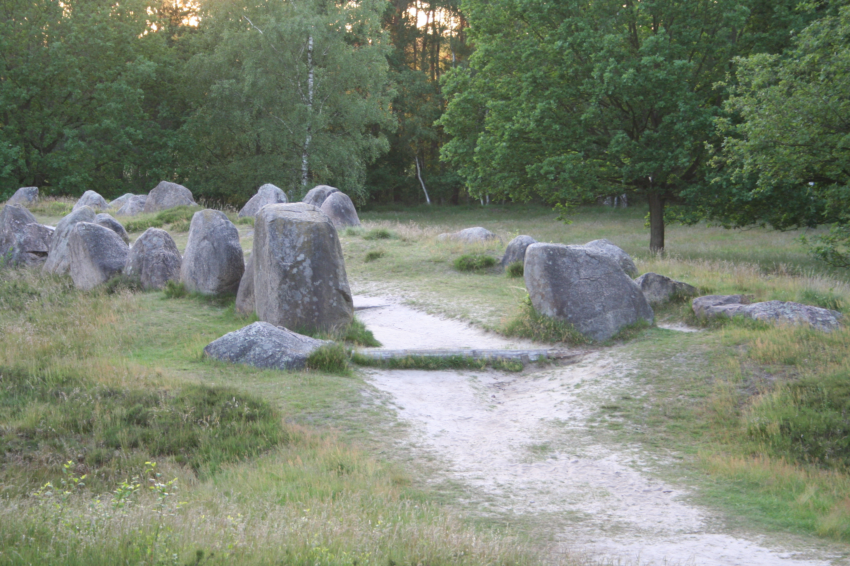 Megalithic tomb Glaner Braut 1